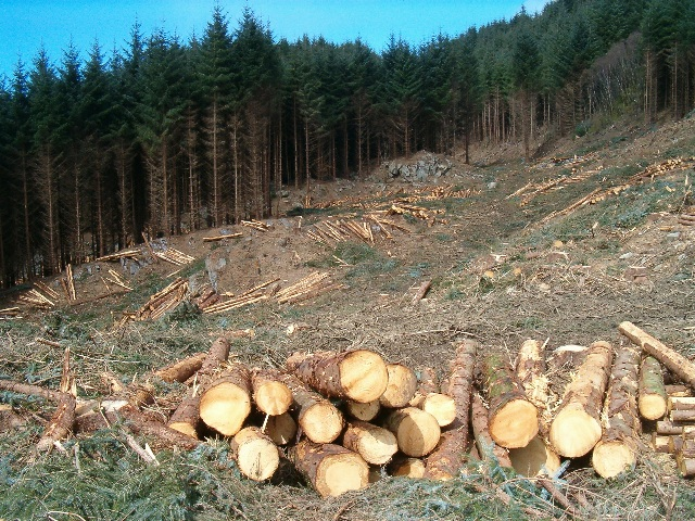 Freshly-felled timber Active felling taking place north of Ormaig.